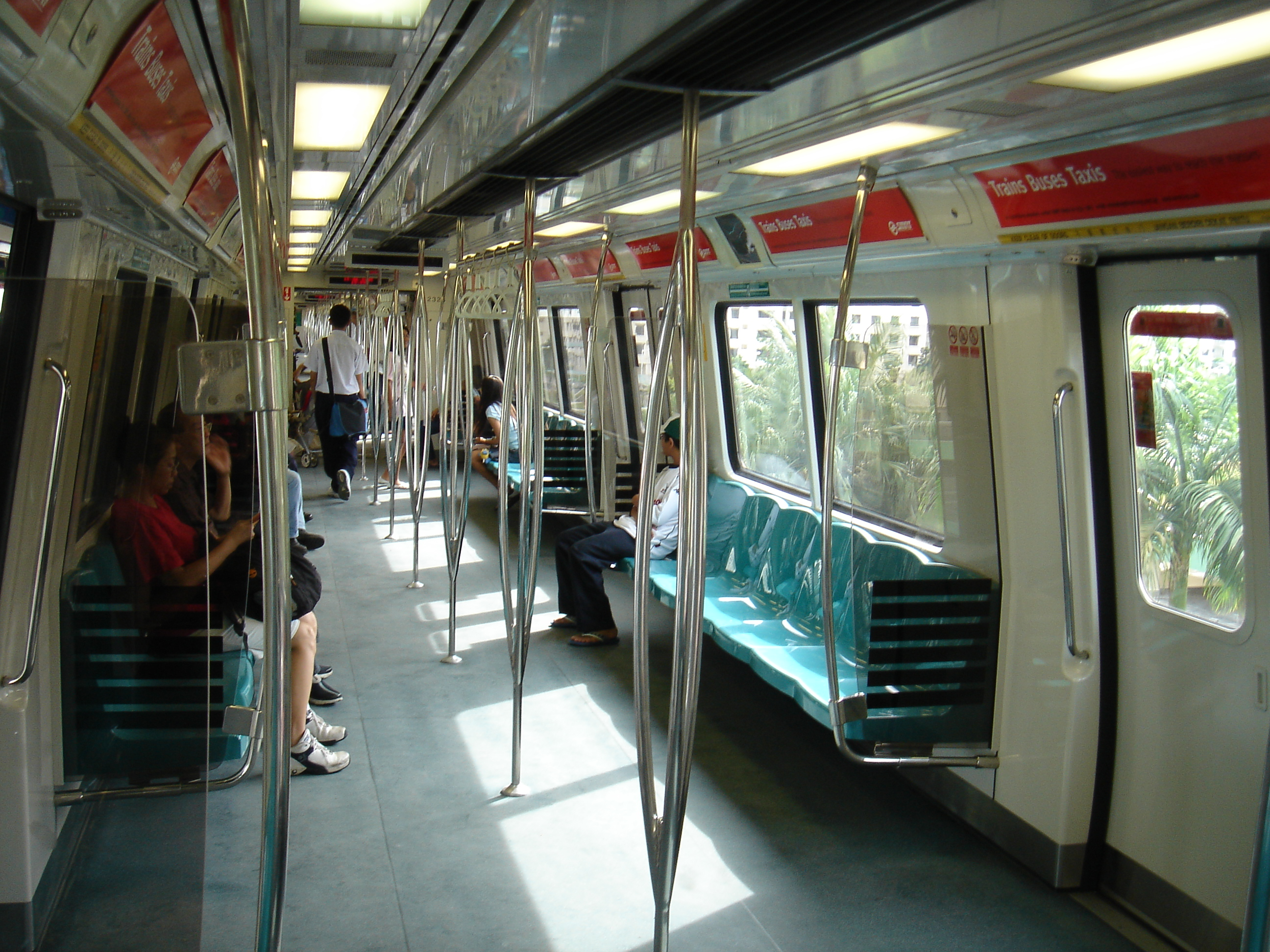 Interior of the C751B Kawasaki Heavy Industries/Nippon Sharyo (1998-2002) rolling stock, center compartment.